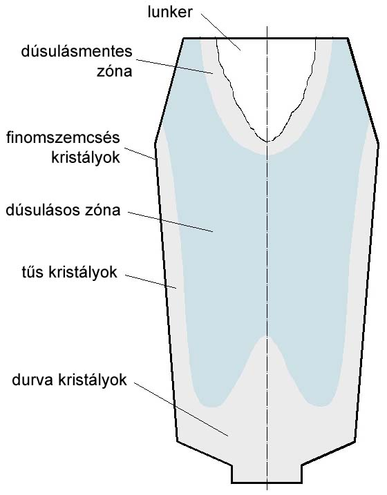 Structure of the forging grade ingot